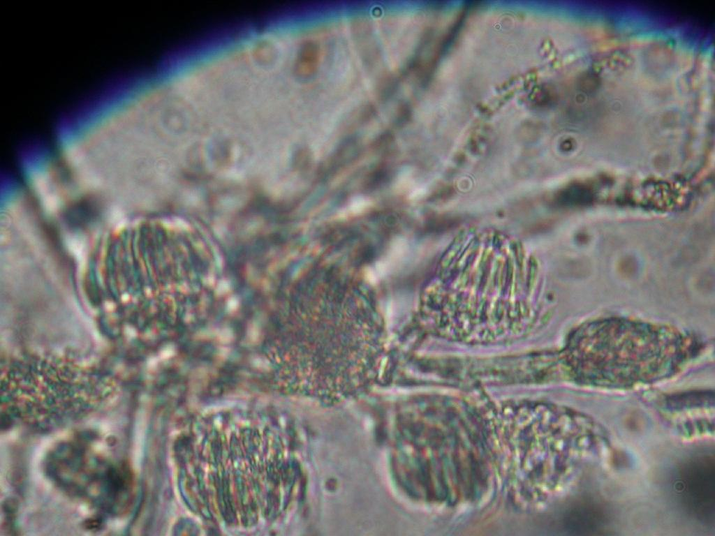 Coemansia sp. perhaps C. electa. 2004.11.Susami T, Wakayama Pref.Japan